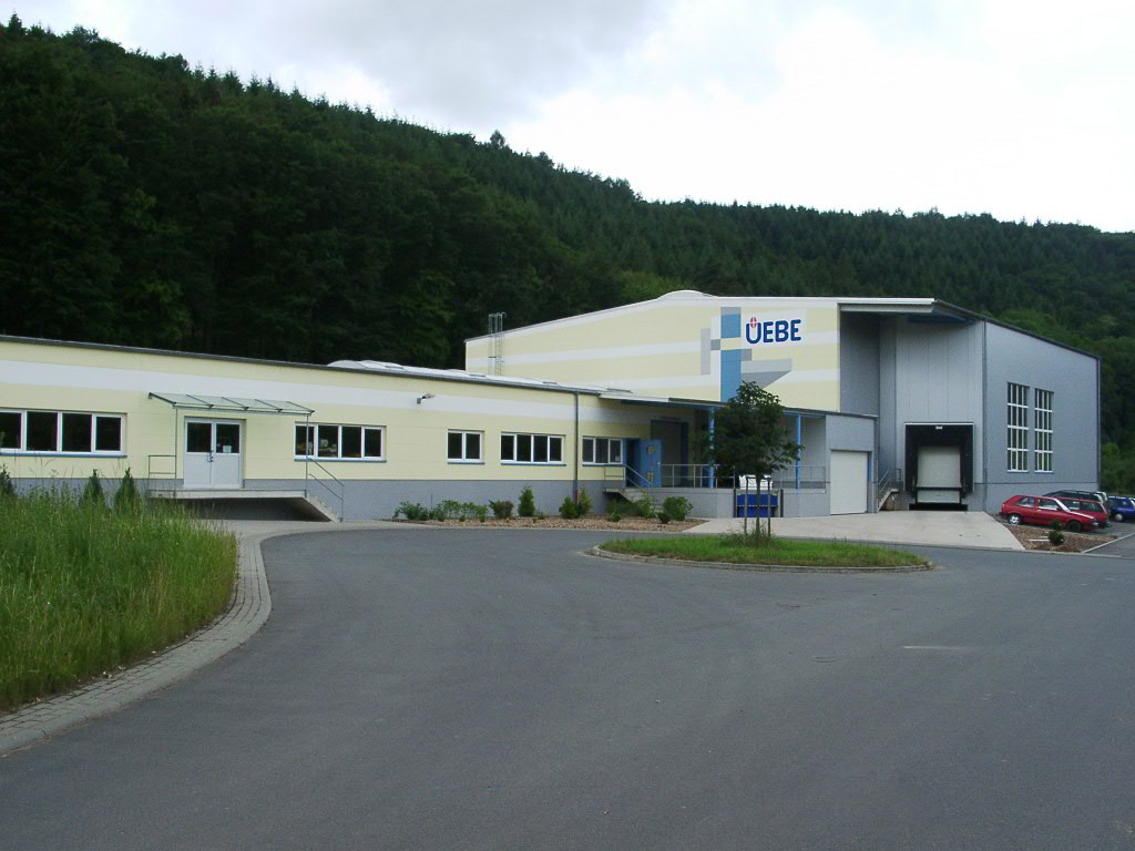 company